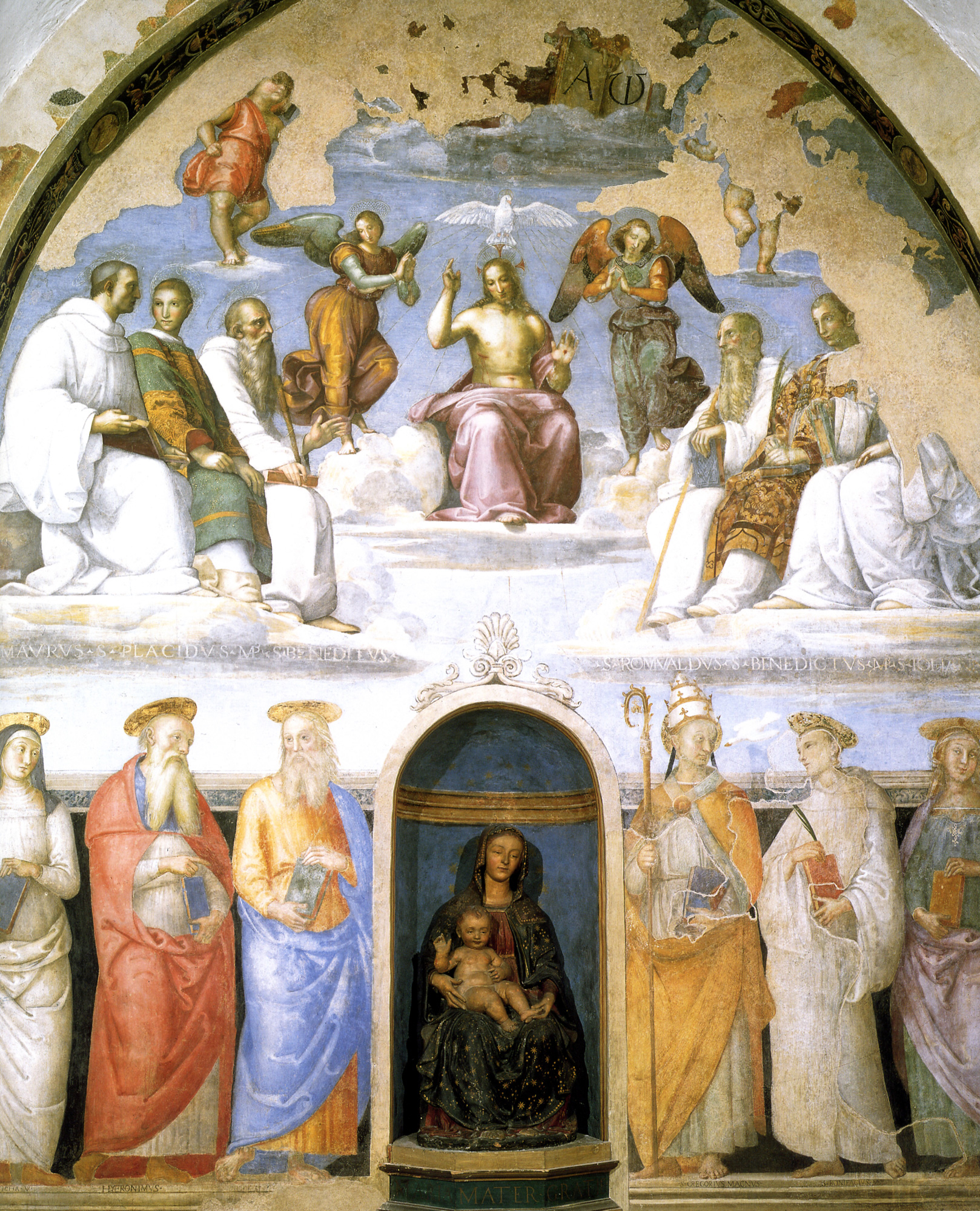 Holy Trinity with Saints Raphael Fresco Perugia, San Severo